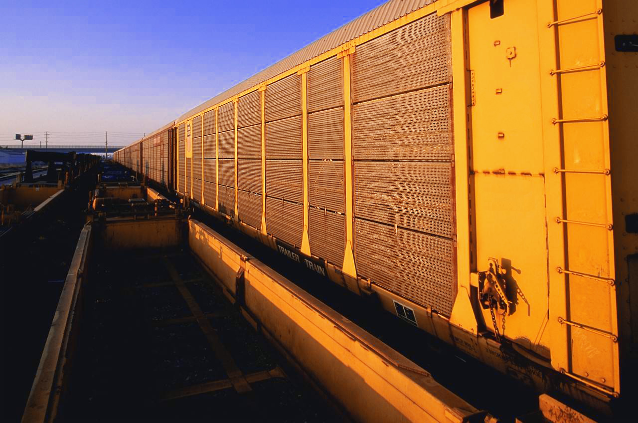 Cikarang Dry Port Cargo